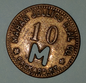 photograph of company scrip issued by the Mahan Jellico Mining Company Packard Kentucy